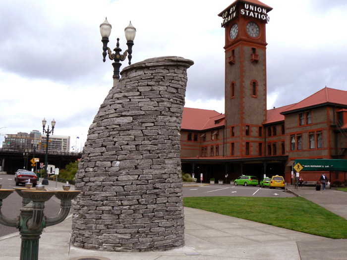 Central Train Station monument in Portland, Oregon.